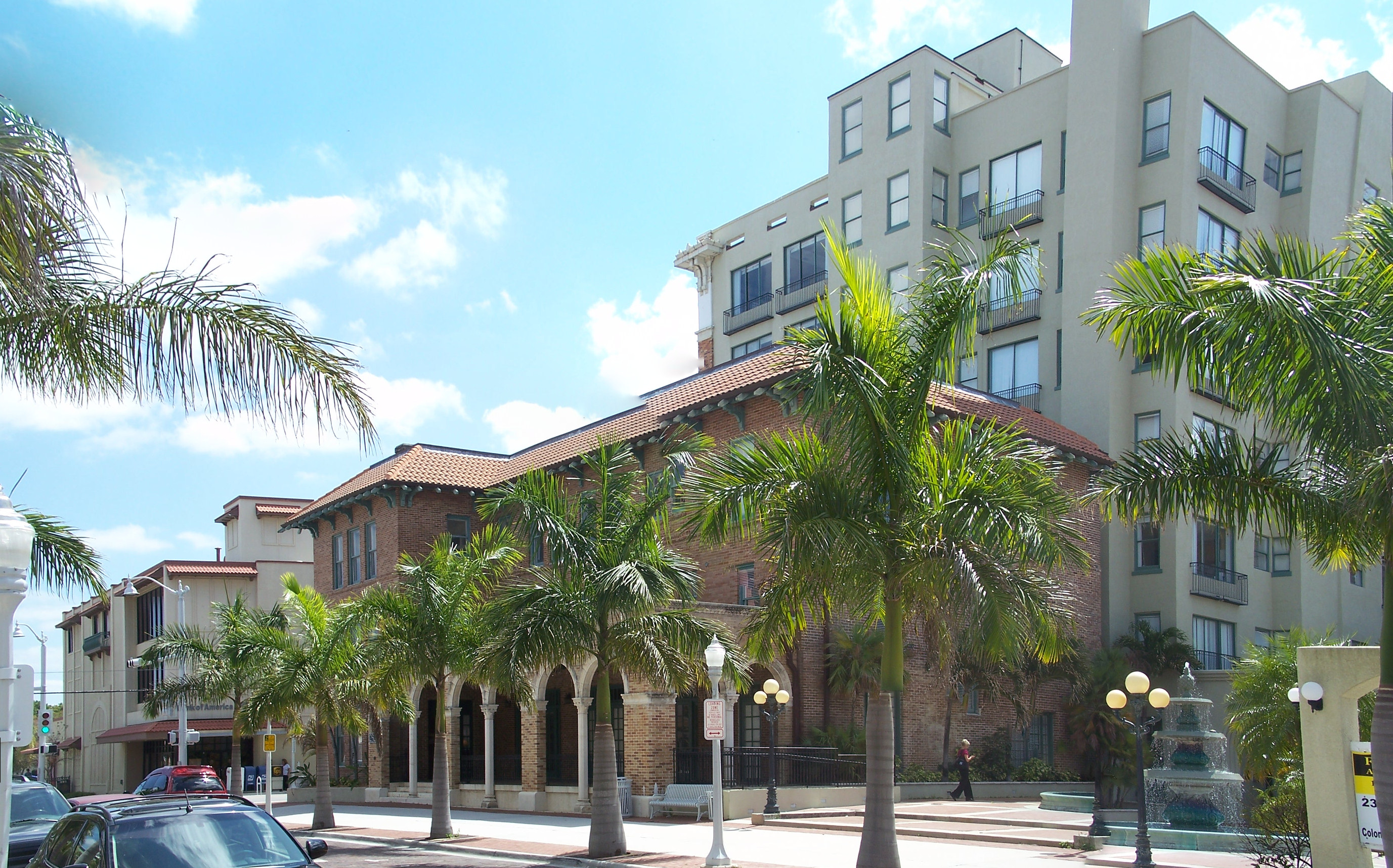 Fort Myers, Florida: Fort Myers Downtown Commercial District: Franklin Arms.